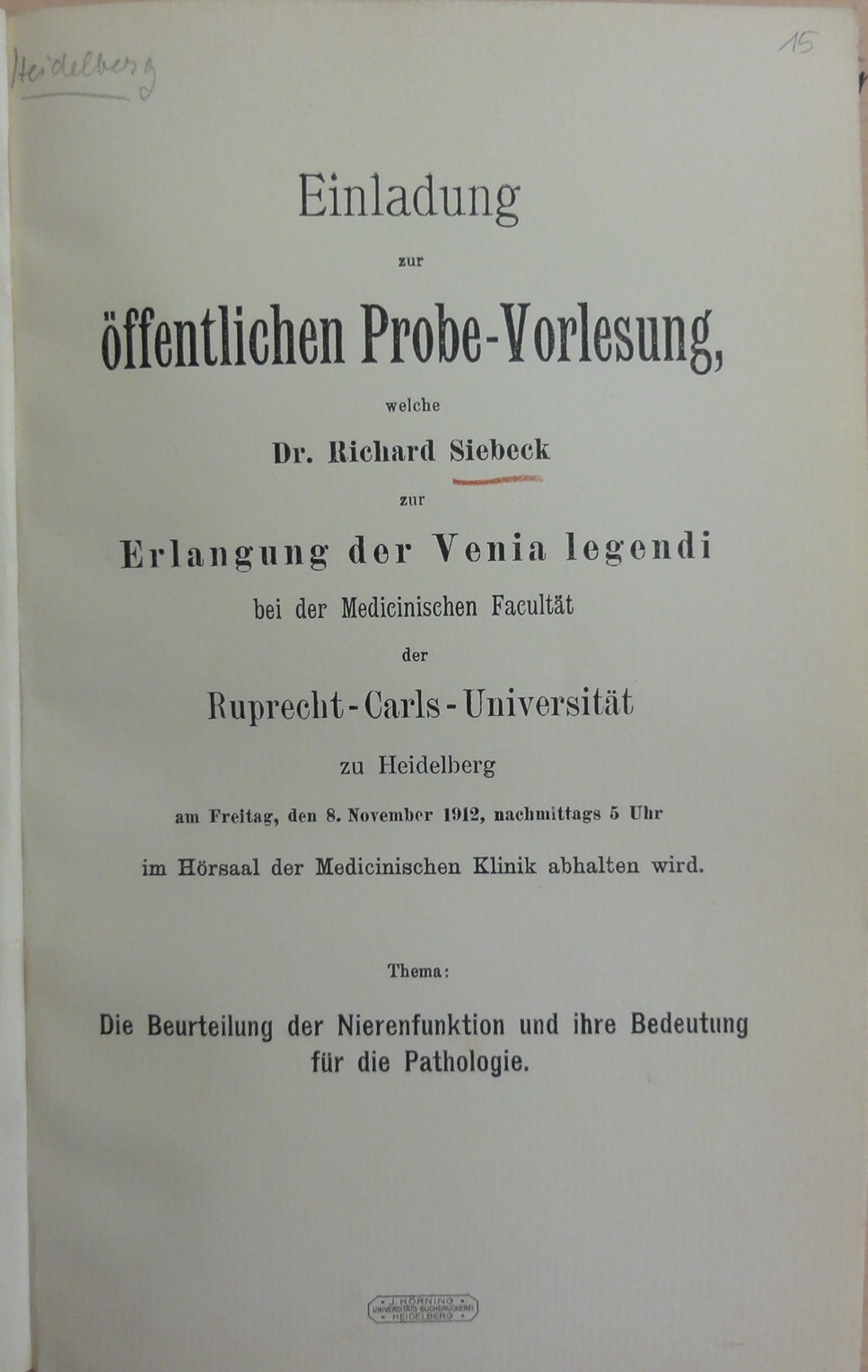 Invitation to Lecture Richard Siebeck